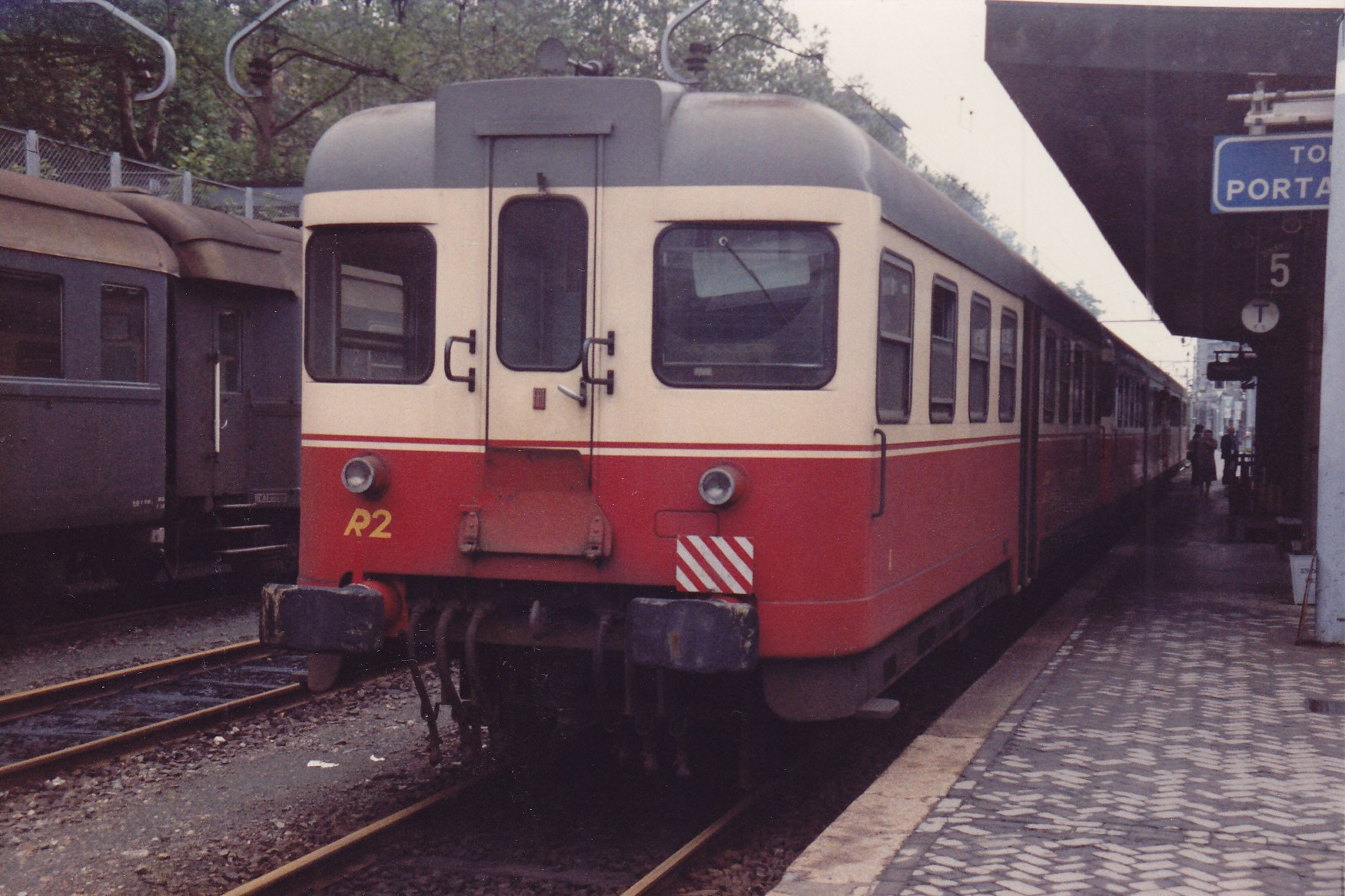 SATTI Trailer R2 in 1988